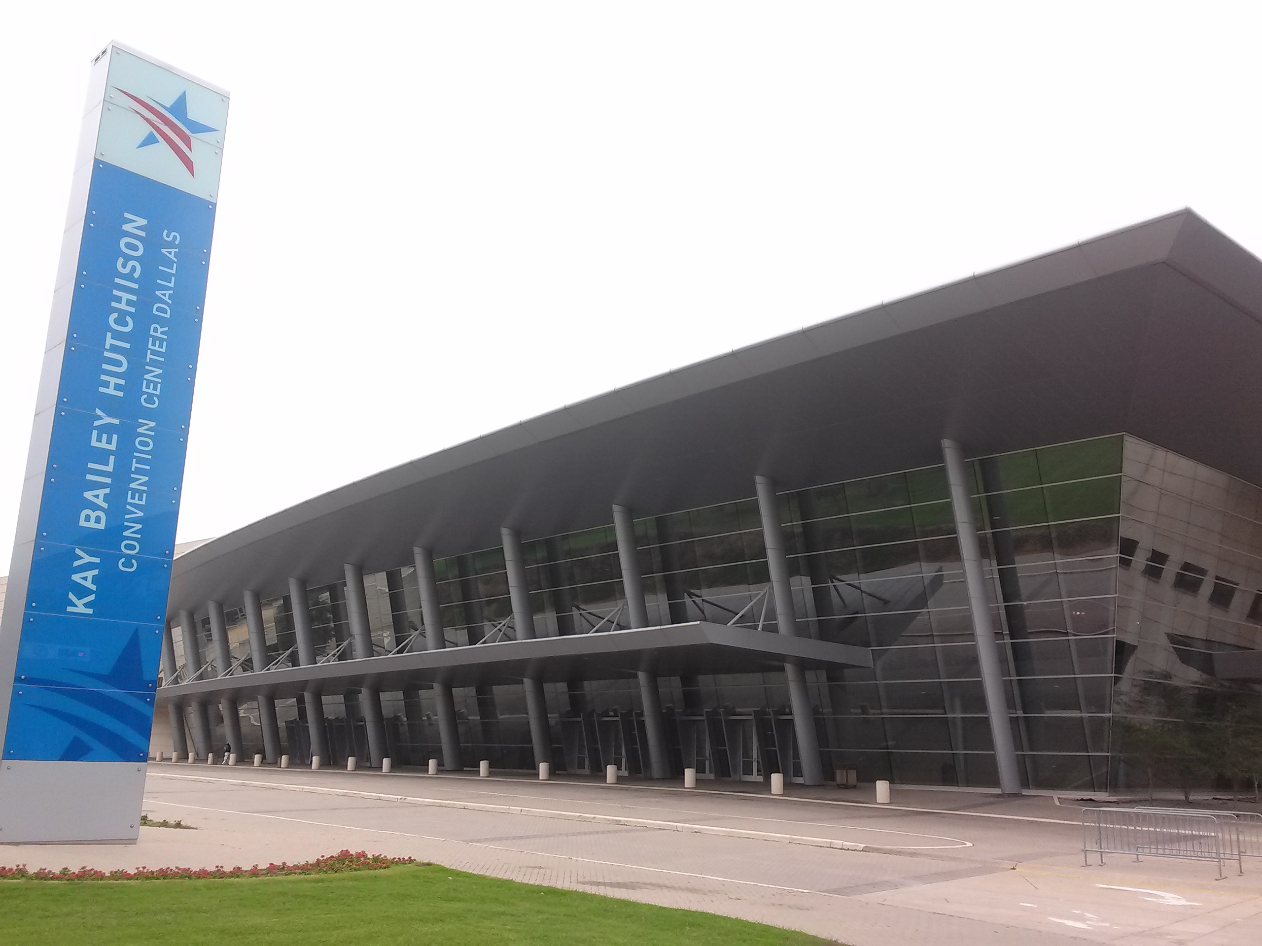 Kay Bailey Hutchinson Convention Center, Downtown Dallas